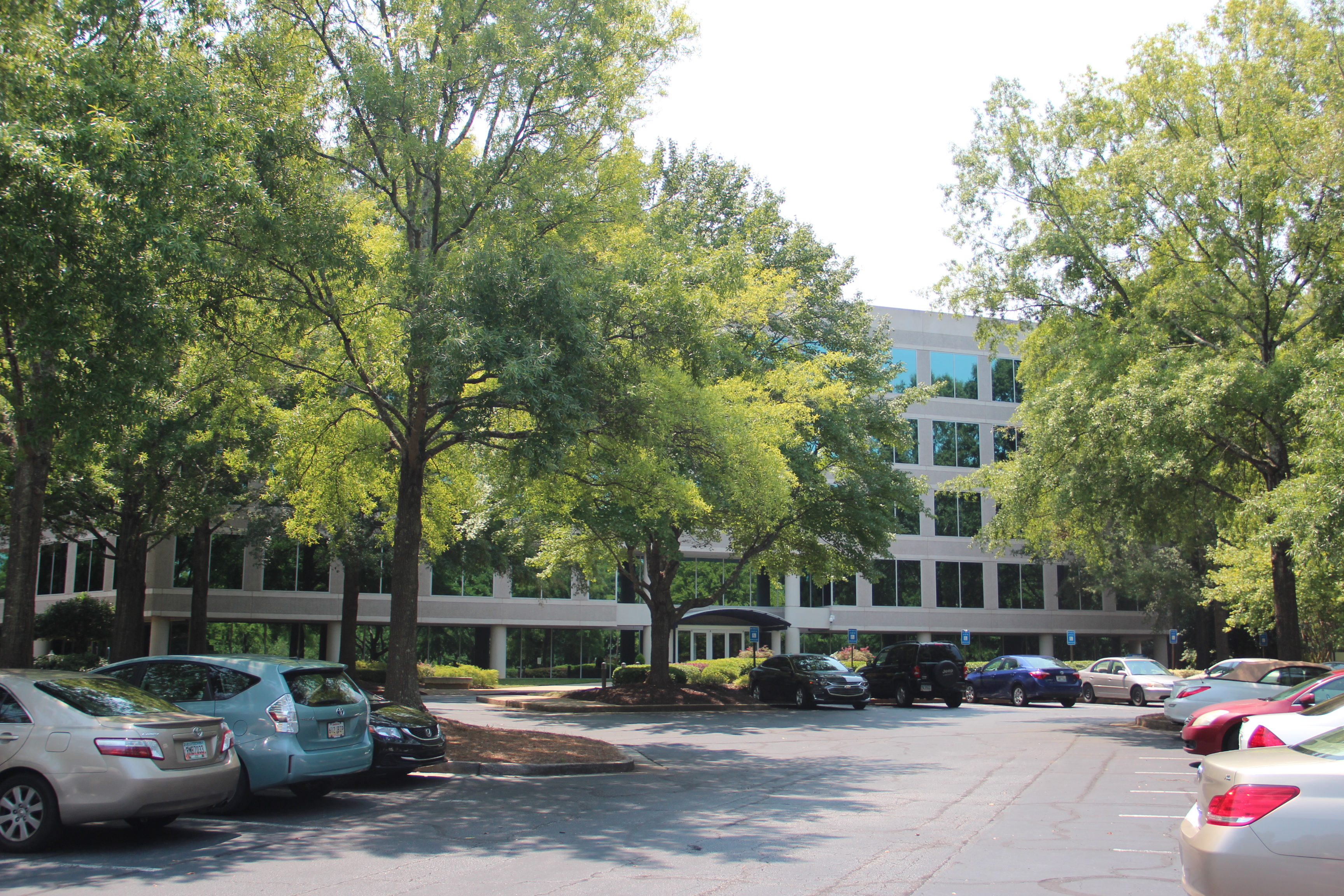 6625 The Corners Pkwy NW, Norcross, GA